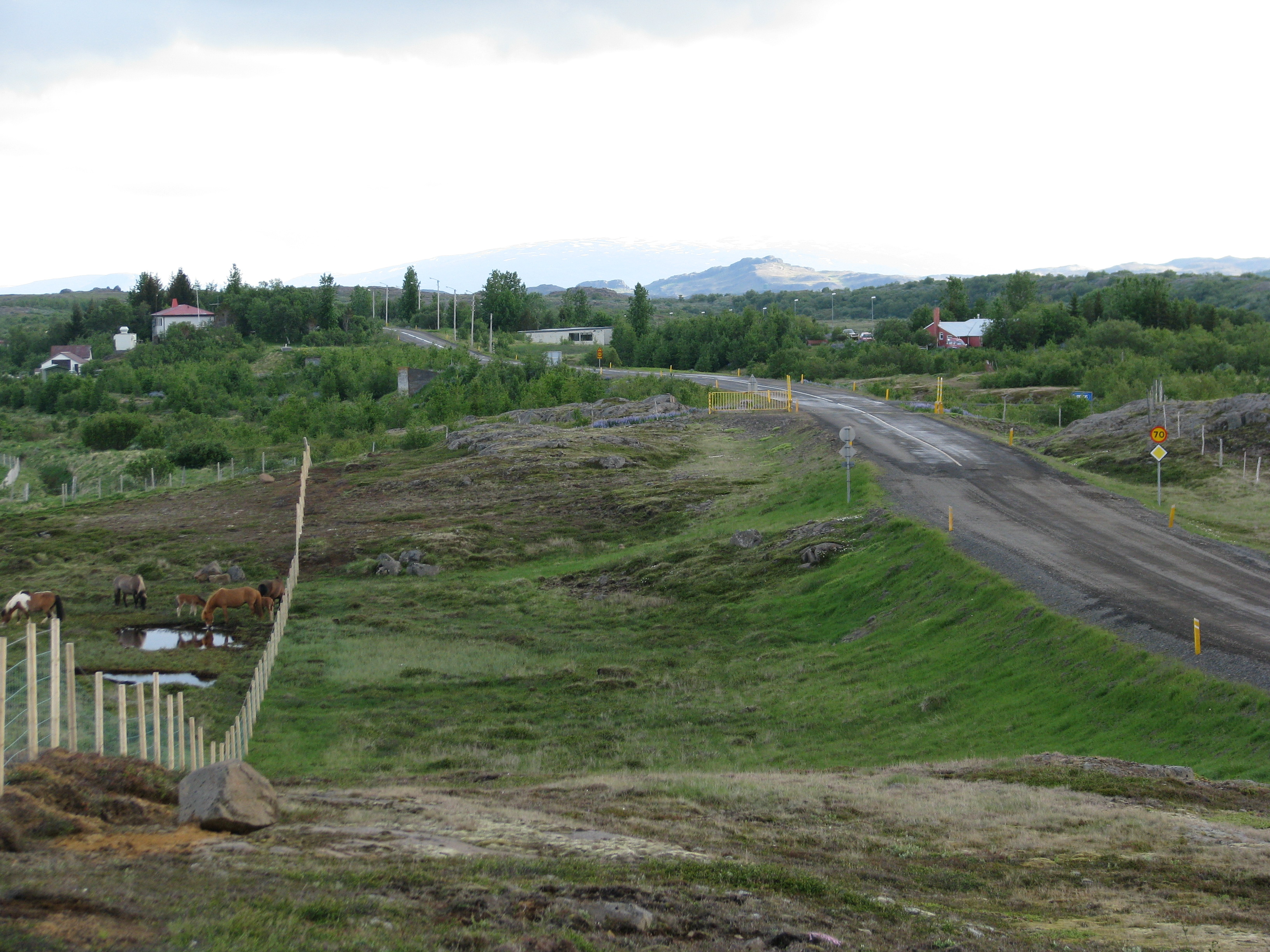 Eiðar, a small place in East Iceland